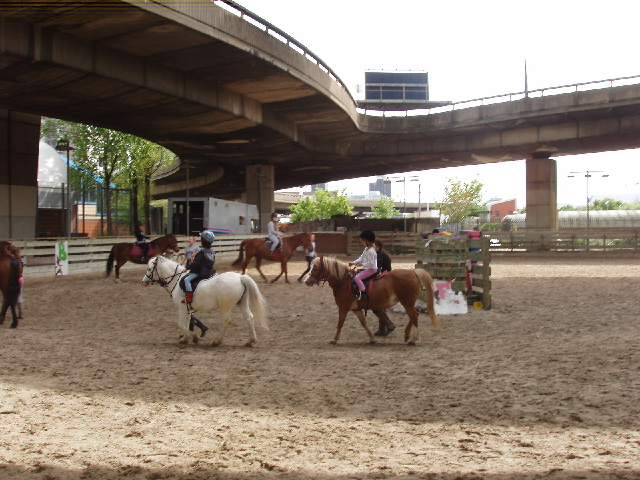 Riding lessons under Westway There are extensive sports facilities underneath the elevated A40 Westway and its roundabout and slip roads to Shepherds Bush and White City. Westway Stables have 20 horses and ponies, with a sand covered training ring just under the flyover.